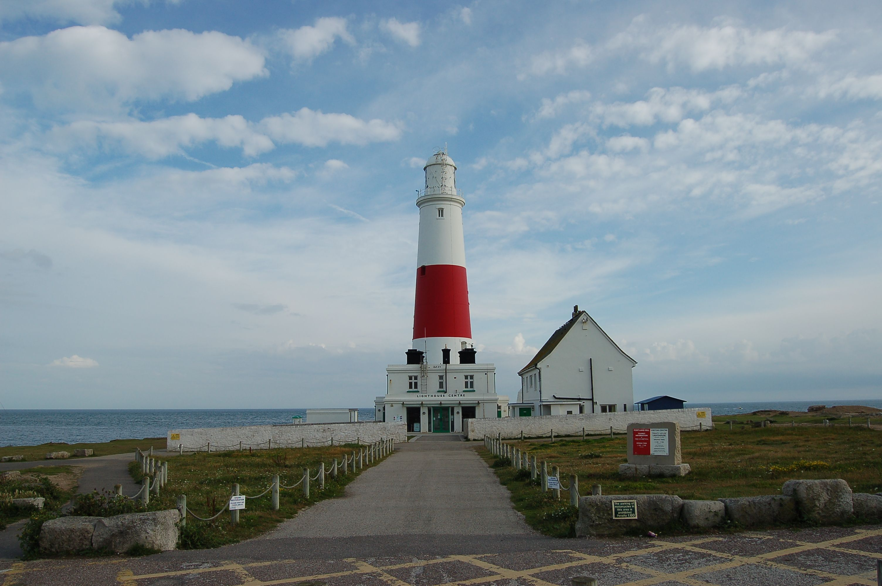 Portland Bill lighthouse in Dorset, England